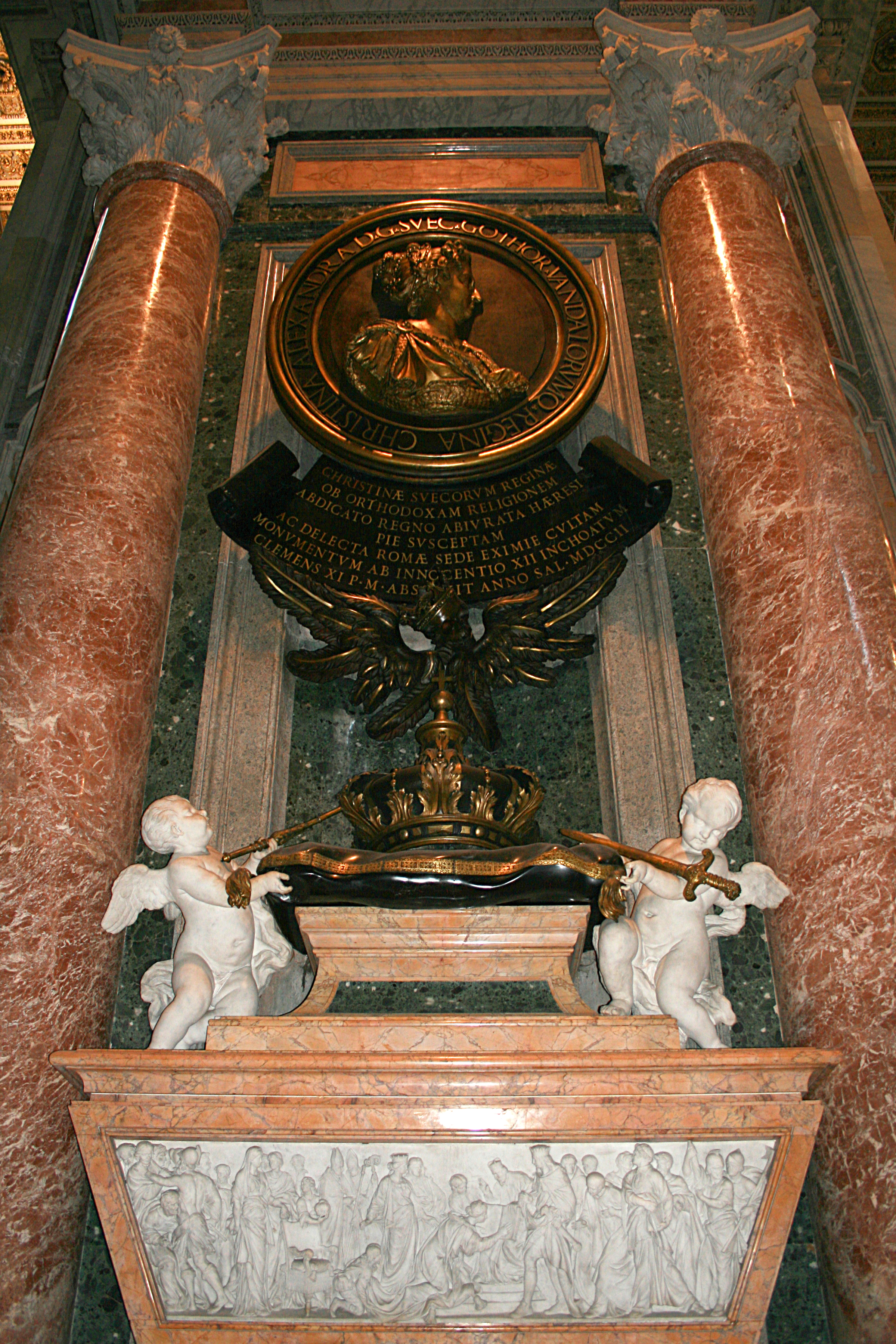 Tombstone of Queen Christina of Sweden, St. Peter's Basilica, Vatican (1702) - Work of Fontana Carlo (1634 or 1638-1714).